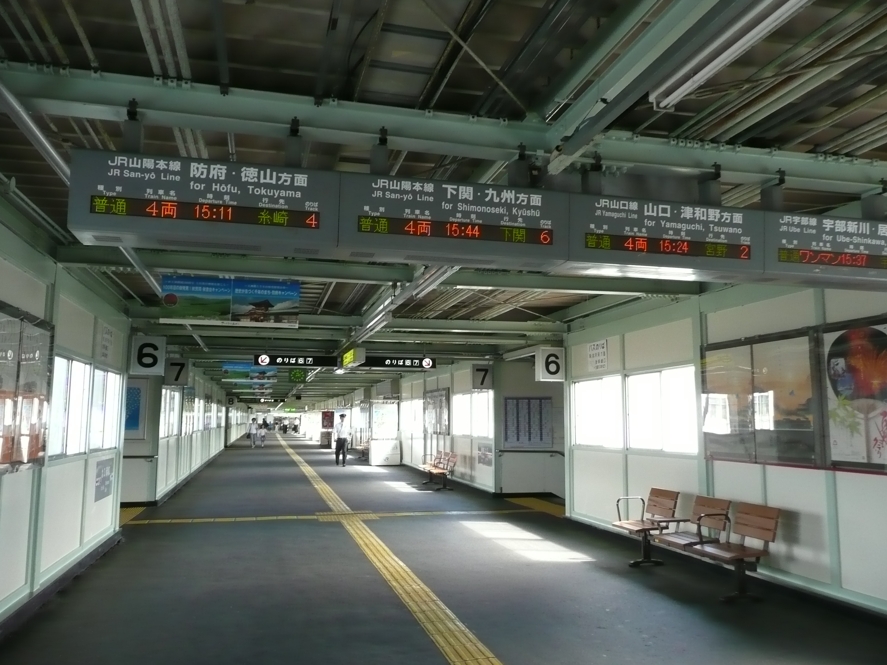 Shin-Yamaguchi Station concourse